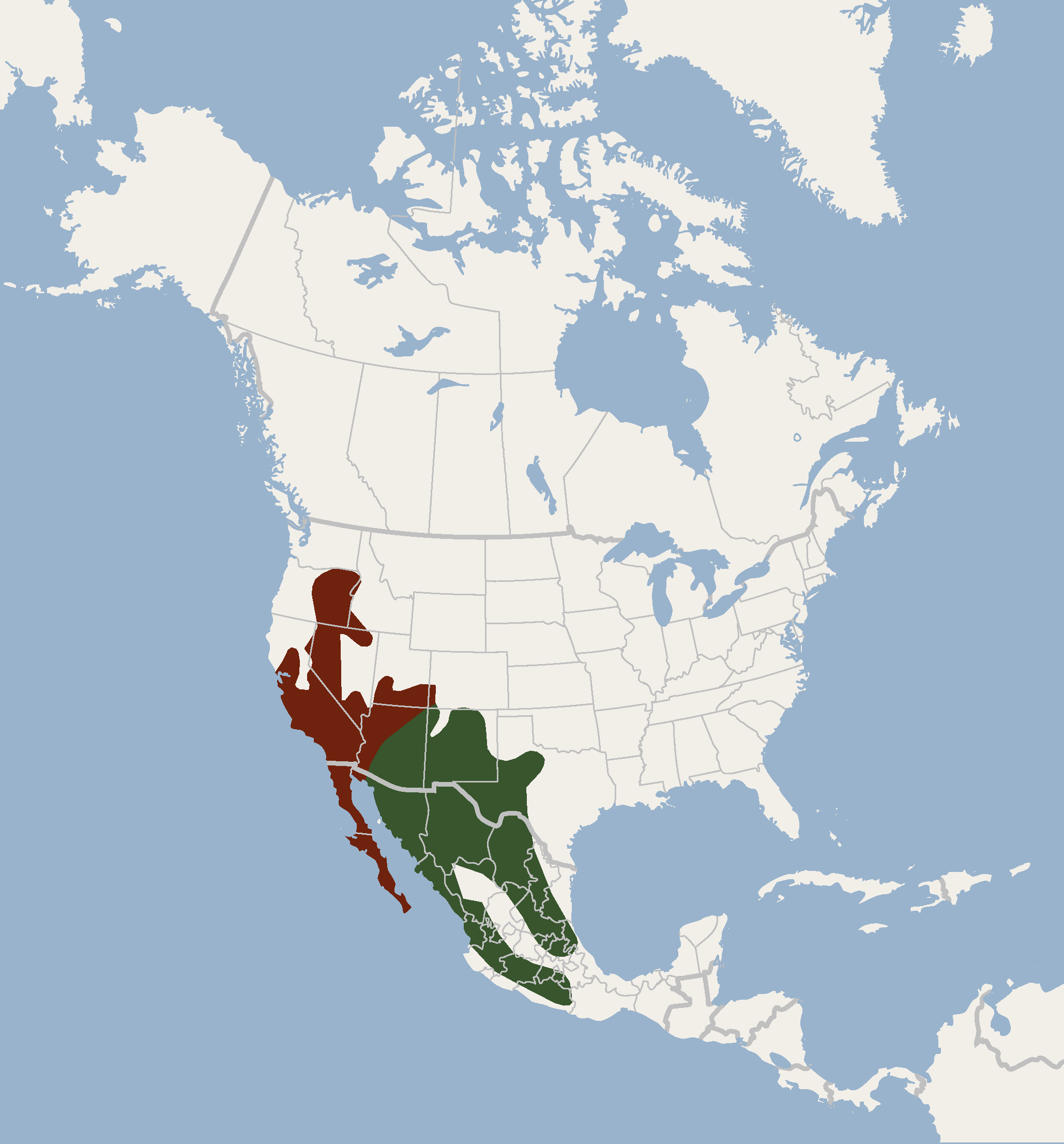 According to Hall & Dalquest, 1950